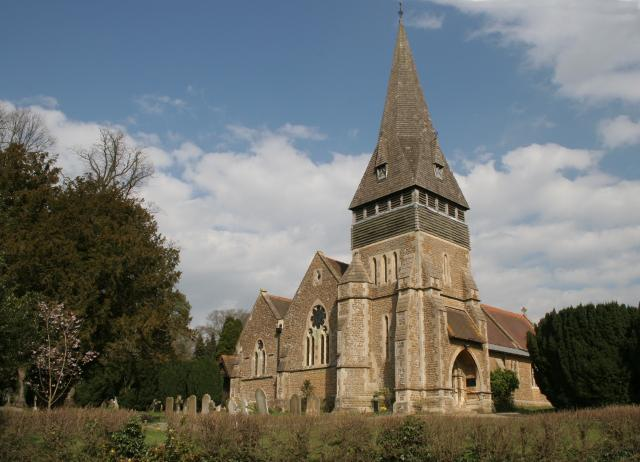 St Michael and All Angels parish church, Sandhurst, Berkshire, seen from the southwest